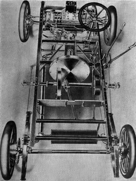 1906 Lambert 2-cylinder automobile chassis